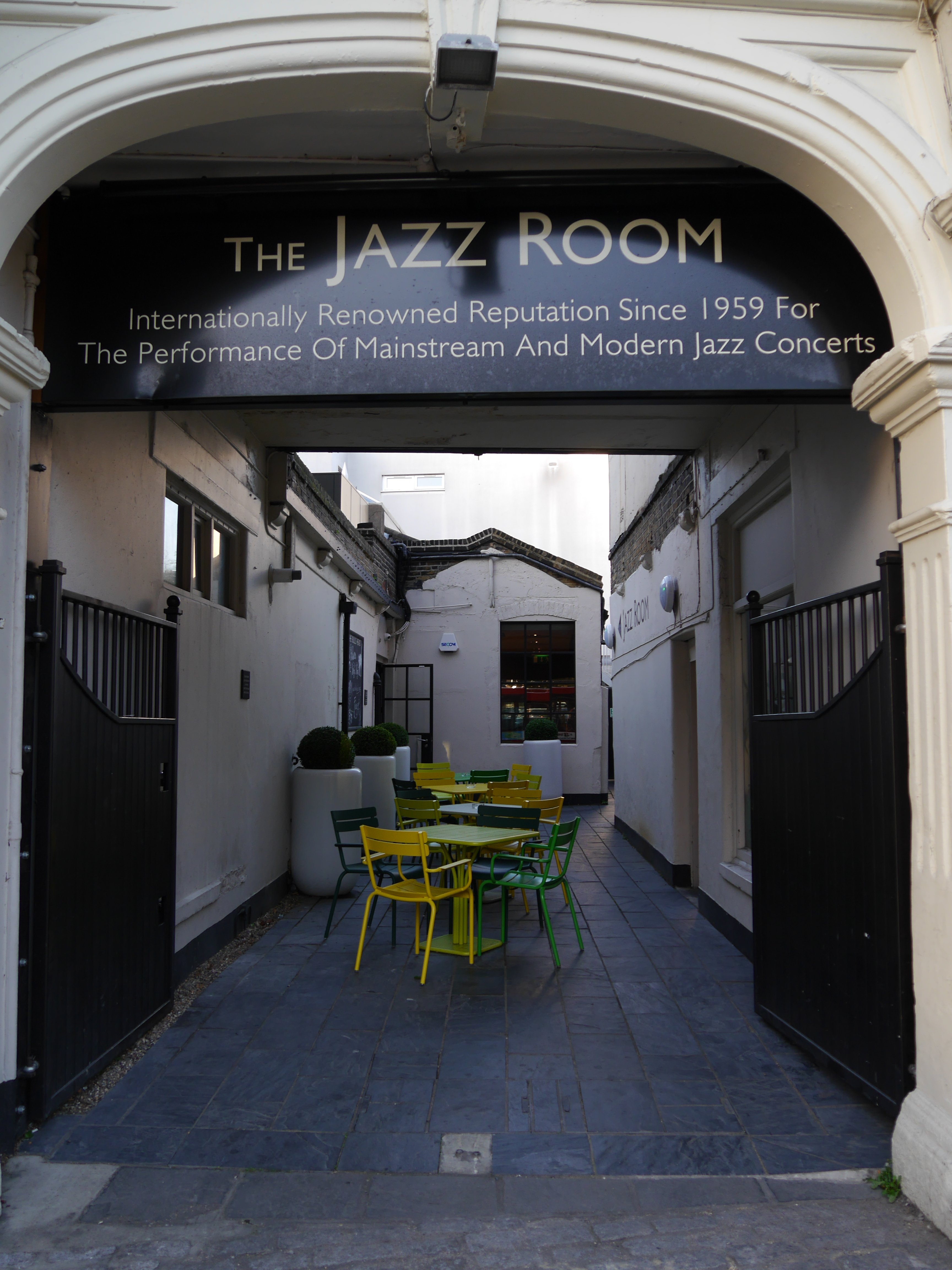 Bull's Head, Barnes, October 2014